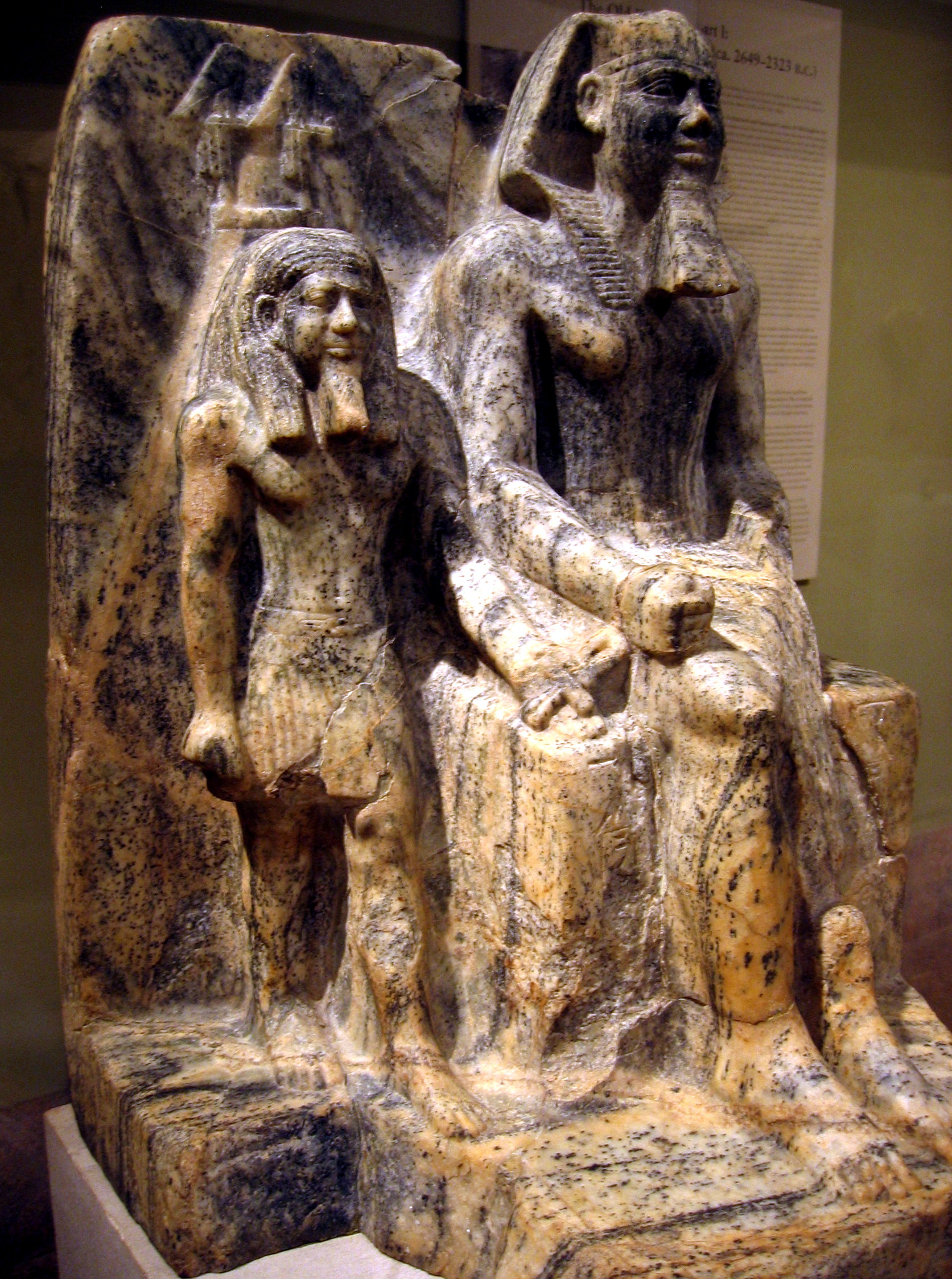 The god (smaller one) is giving Pharaoh Sahura rights to rule upper and lower Egypt. Metropolitan Museum of Art, NYC.